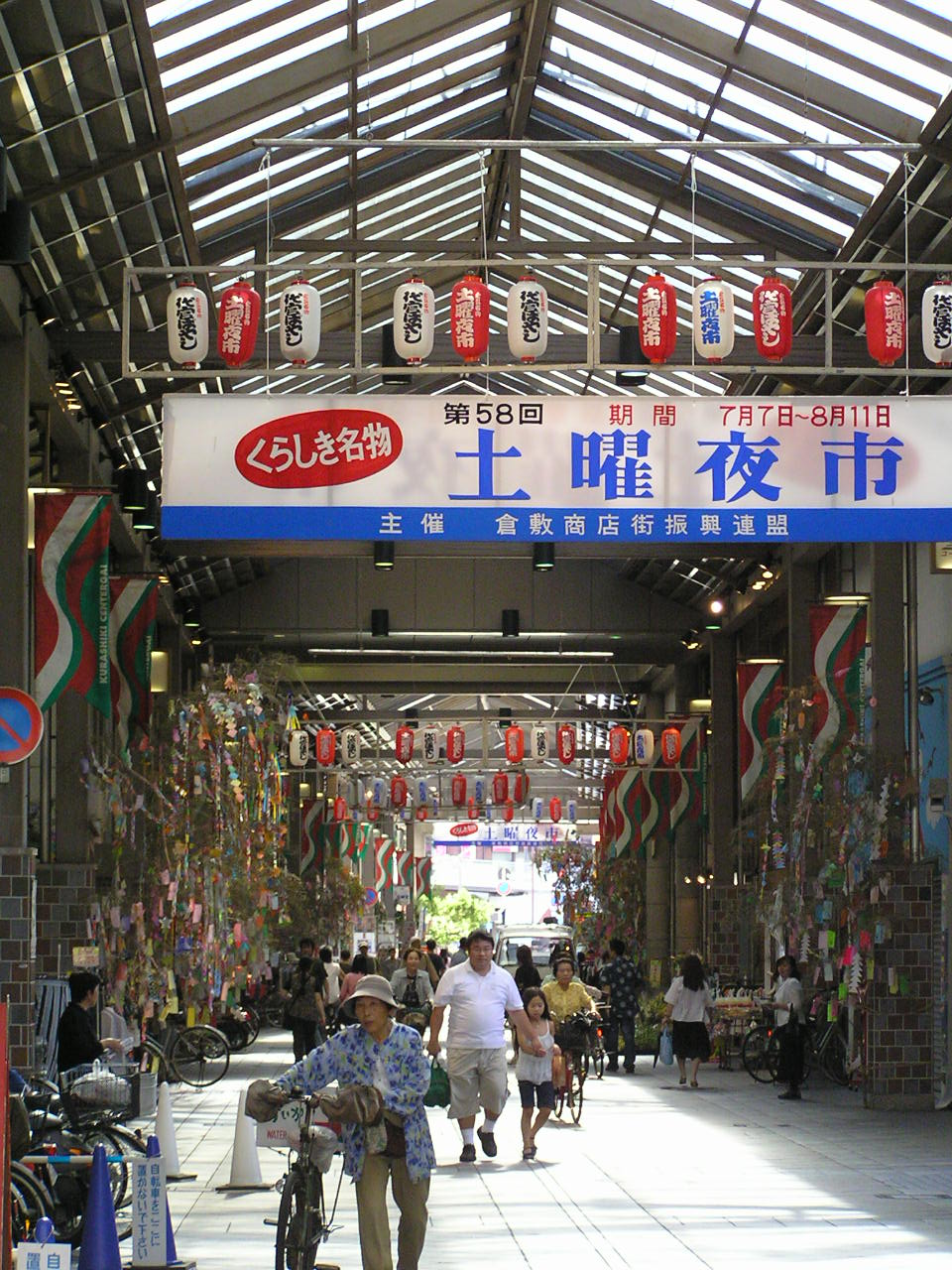 Kurashiki Center Gai Shopping Street